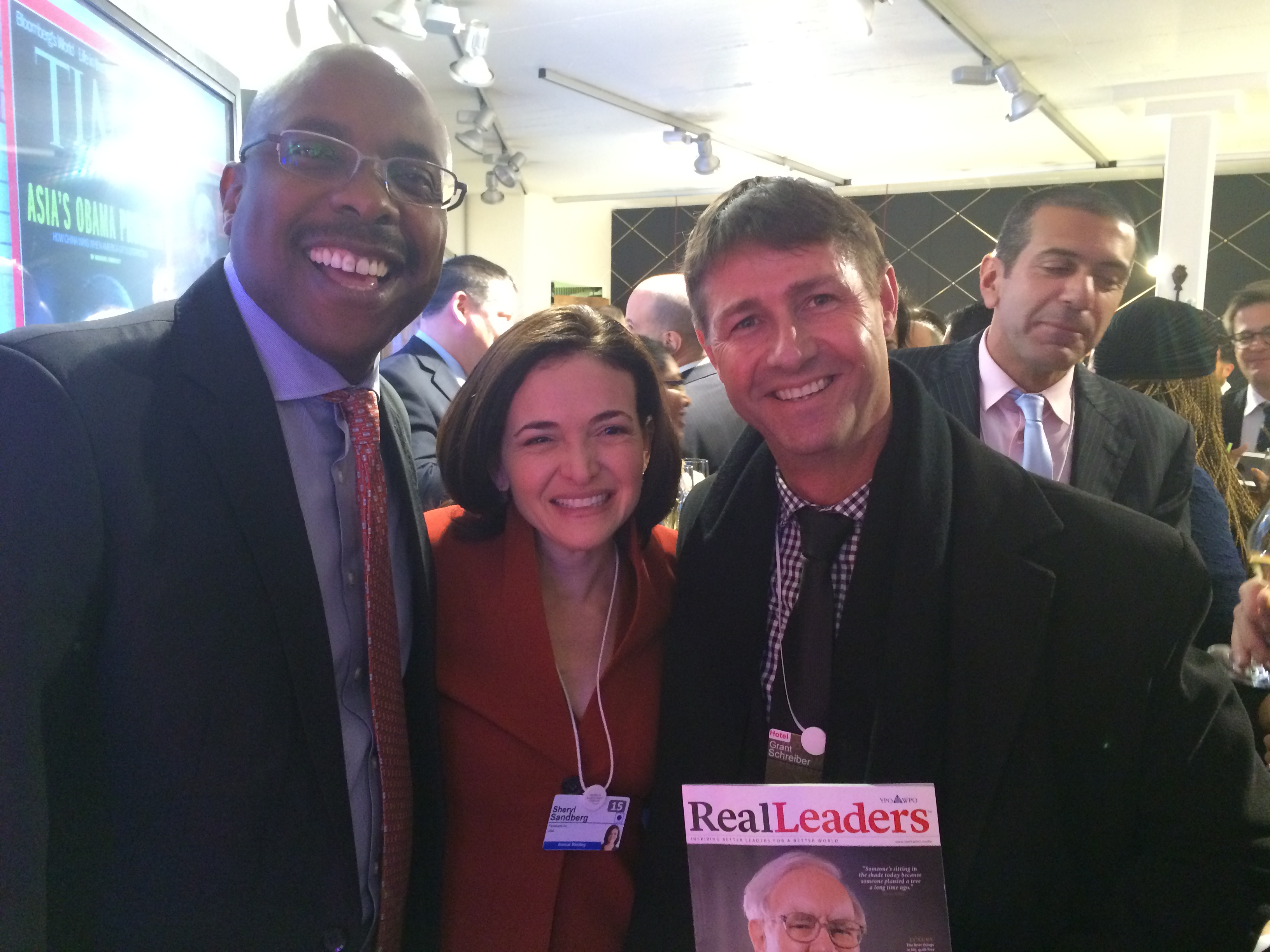 Sheryl Sandberg, COO of Facebook with Grant Schreiber (right), editor of Real Leaders and Miller Matola (left), CEO of Brand South Africa at The World Economic Forum, Davos 2015